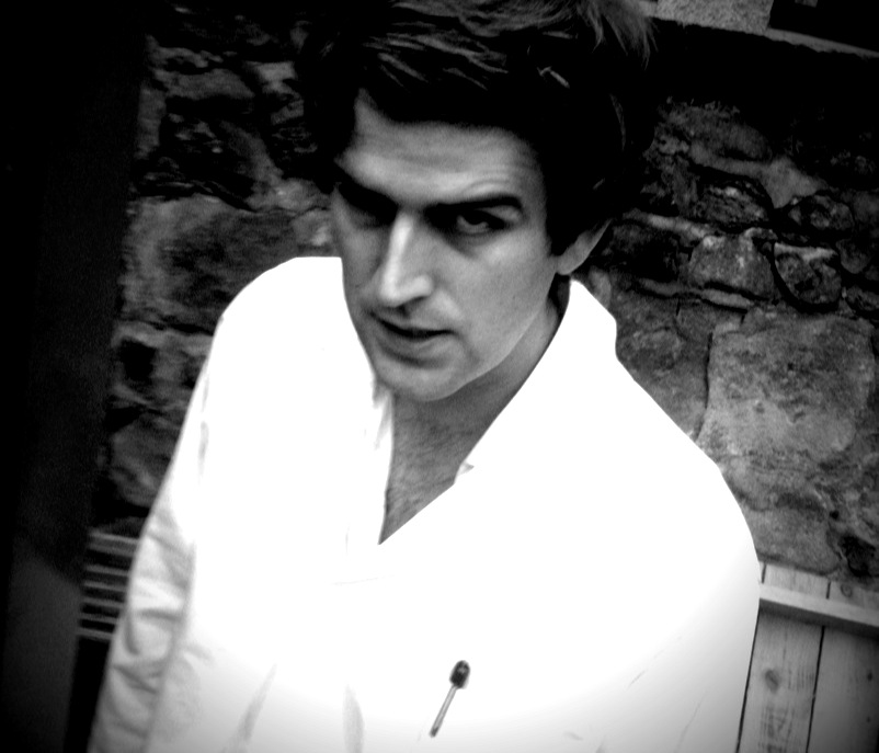 Humphrey Ker, backstage at the Penny Dreadfuls Edinburgh Fringe show